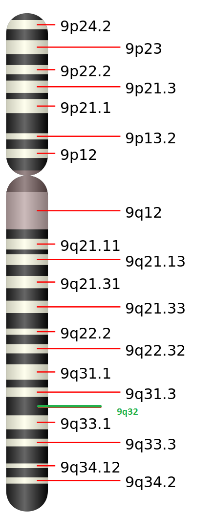 Chromosome 9 is decpicted. 9q32 is added, indicating region where C9ORF91 is located